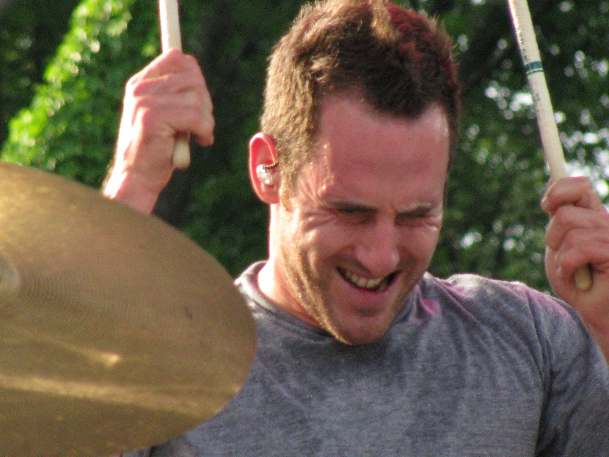 Chuck Comeau applies the drumsticks at Simple Plan's show at Six Flags New England, June 22, 2008